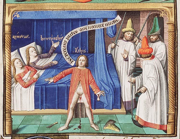 The Hague, MMW, 10 A 11 fol. 43r Book 2, 4 Attis castrates himself; Minerva and Cybele are lying in bed behind him; three men are standing with drawn swords at the foot of the bed (2nd of 2) Fol. 43r: column miniature 43r 120x80